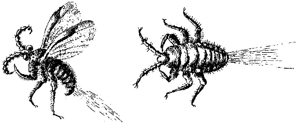 Adult Polish cochineal, male (left) and female (right)